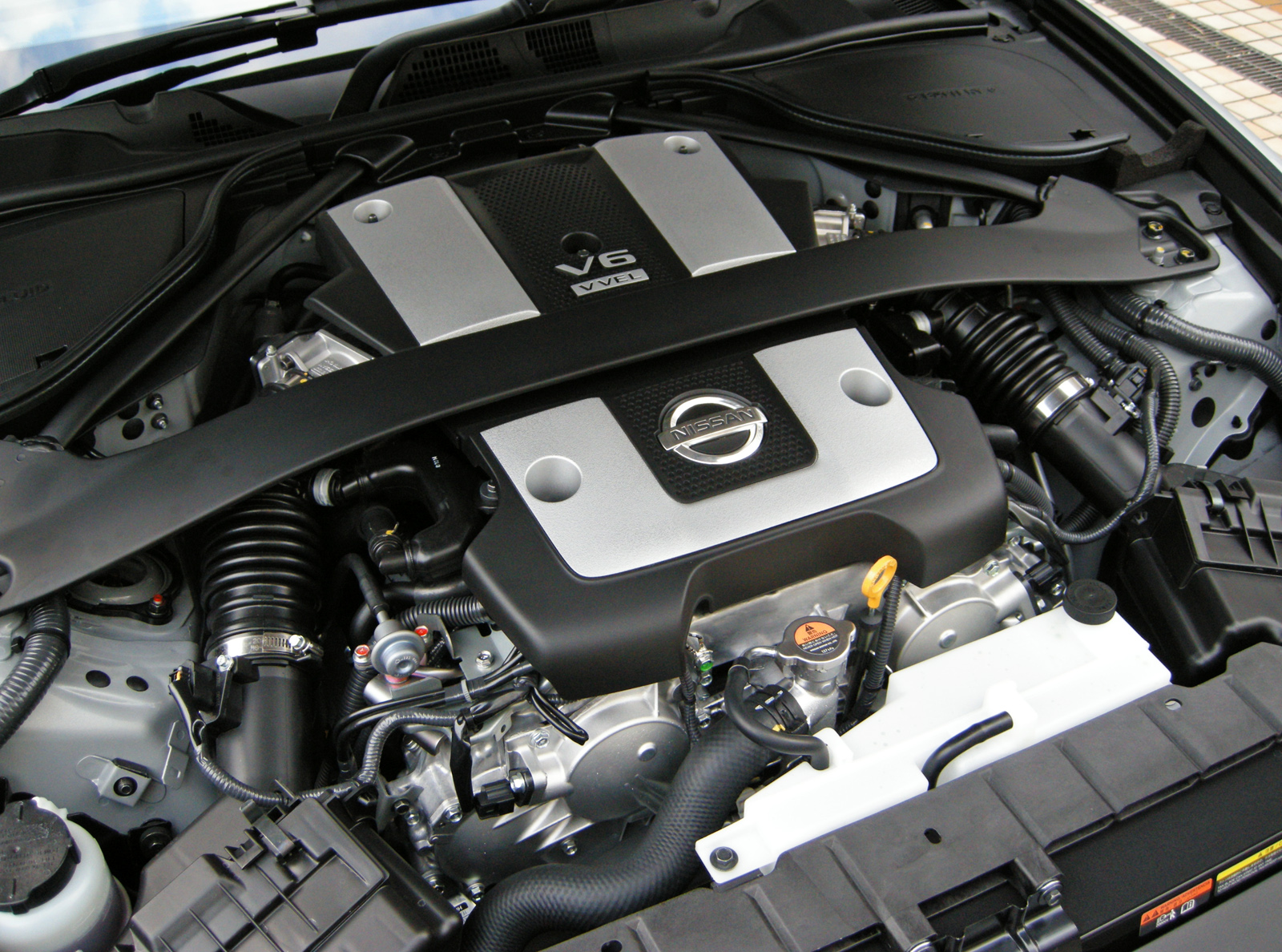 Nissan VQ37VHR 3.7L V6 DOHC VVEL Engine installed in Nissan Z34 Fairlady Z (370Z)